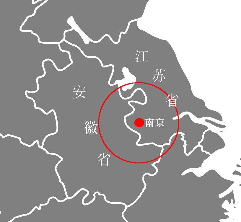 Nanjing and its neighbor cities